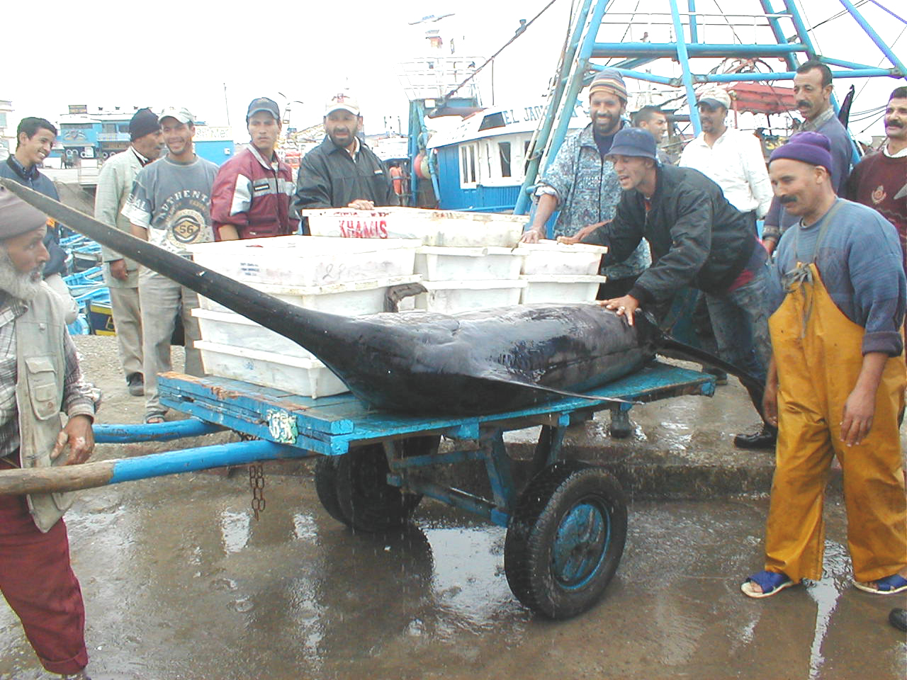 Swordfish (Xiphias gladius) just brought back in harbour of Essaouira, Morokko: Loukîz : Pexheus espadon.JPG Walon: on spadon, djusse distcherdjî e pôrt d' Essawira (Marok); See : Pexheus espadon.JPG